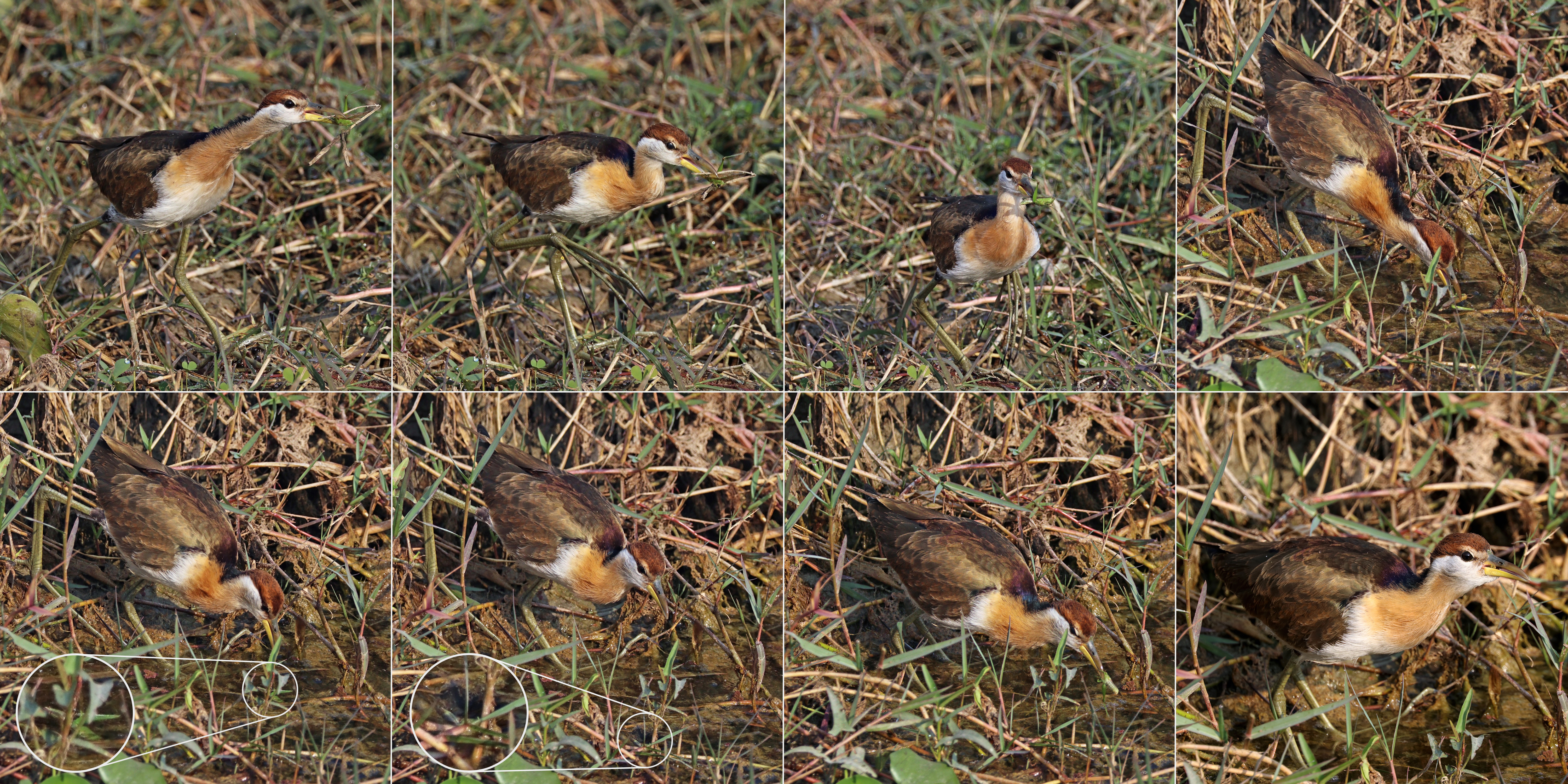 Bronze-winged jacana (Metopidius indicus) immature, Chambal River, Uttar Pradesh, India. A composite of 8 images shot over 30 seconds in a sequence showing the bird deal with a grasshopper. Many bird species, particularly those in captivity and those eating human food, dunk food in water, often to soften it. Adult birds have also been observed dunking insects in water to moisten them when feeding their young. One possible explanation for this particular behaviour (which may be new to science) is that the immature bird is mimicking its parent's behaviour, although jacanas are precocial. Another possible explanation comes from the knowledge that this bird lives on the banks of the Chambal River and has to feed on land at this time of year. Jacanas usually feed in standing water and move around on lily pads (hence the nickname of Jesus birds as they appear to walk on water) catching insects which are much more likely to be wet. The bird is unlikely to be trying to drown the grasshopper. It doesn't hold it under water. The grasshopper is still alive as it has moved between images 5 and 6. I have also uploaded eight Individual images (3184 x 3184 pixels) onto Commons.